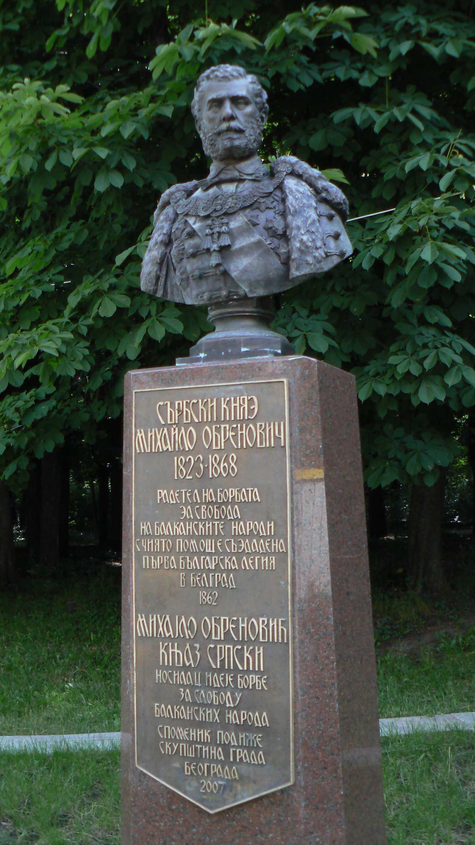 Bust-monument of Mihailo Obrenović I in the South park of Sofia, Bulgaria